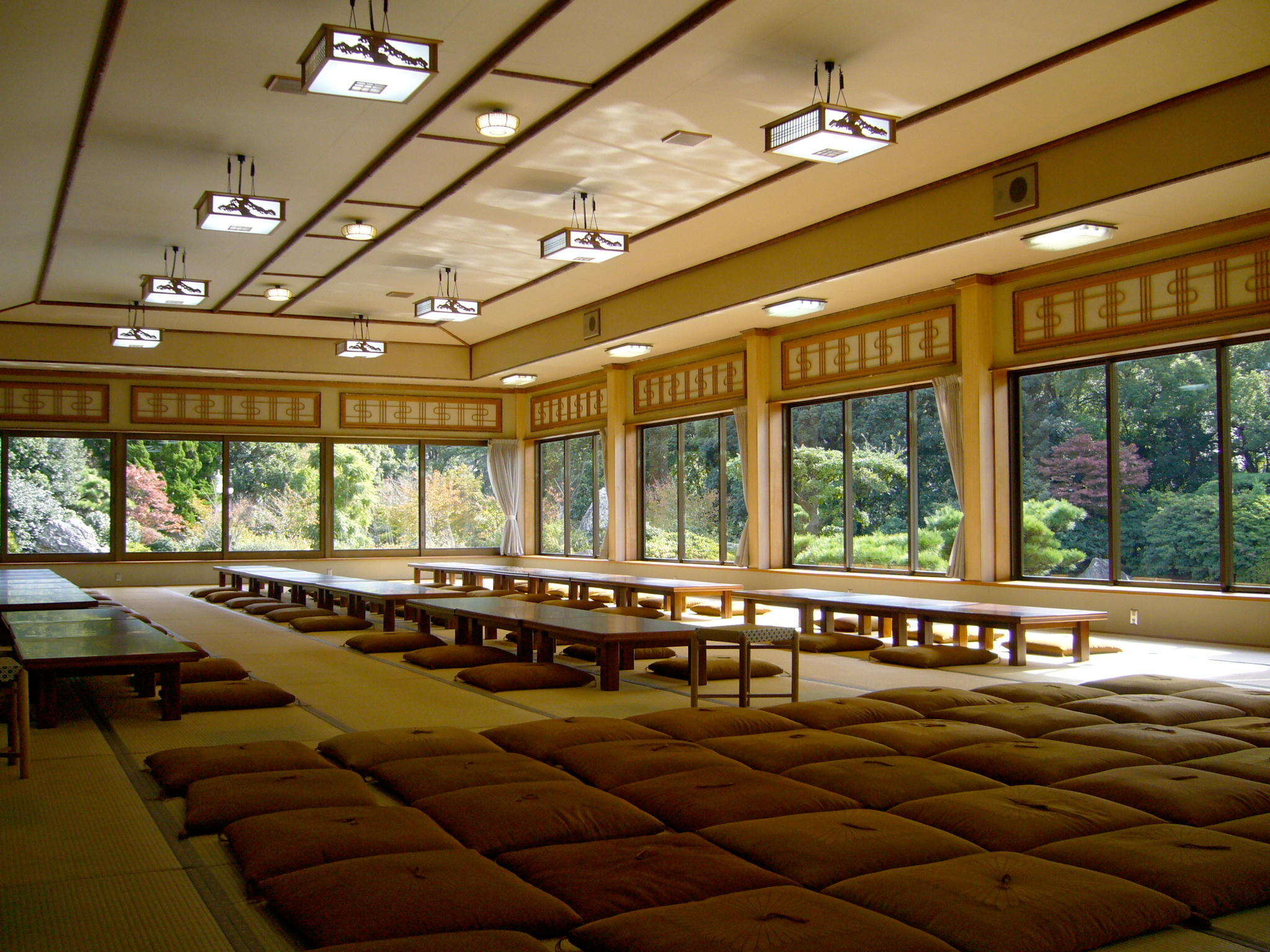 Chokyutei in Kainan, Wakayama prefecture, Japan